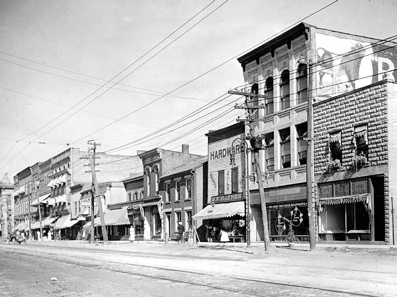 Historic photo of Broad Street in Elyria, Ohio, United States.